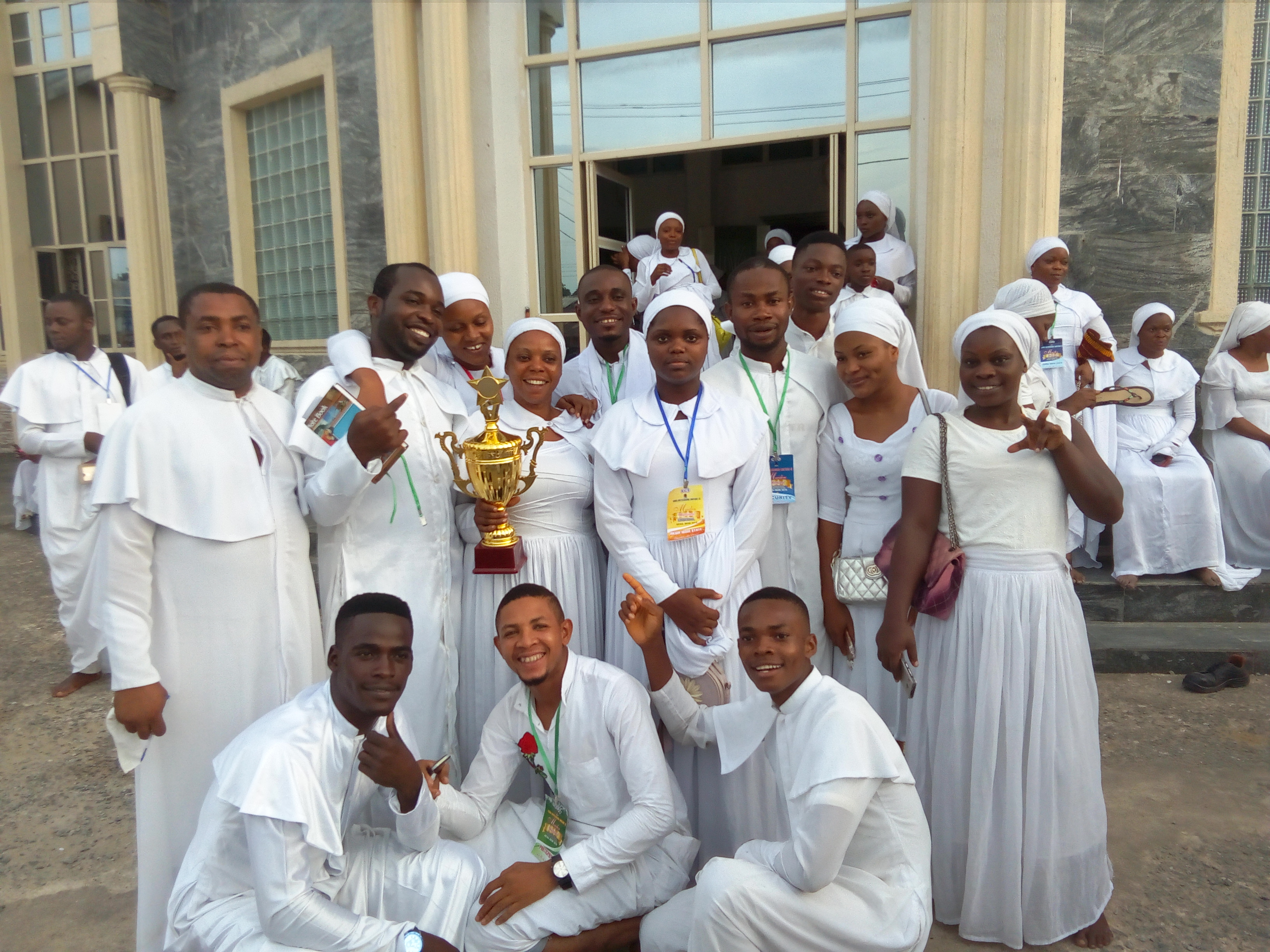 Abasites during Batecaigab national convention in Akwa Ibom